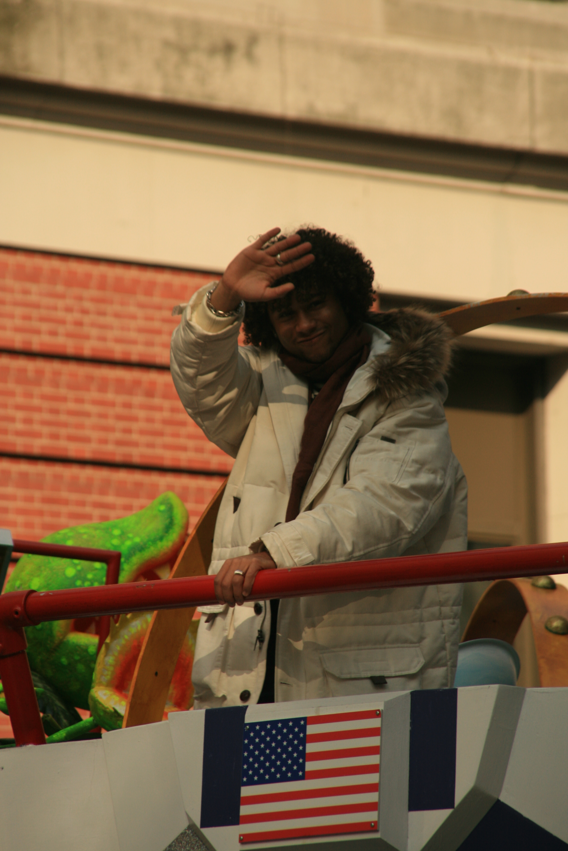 Corbin Bleu 2007.